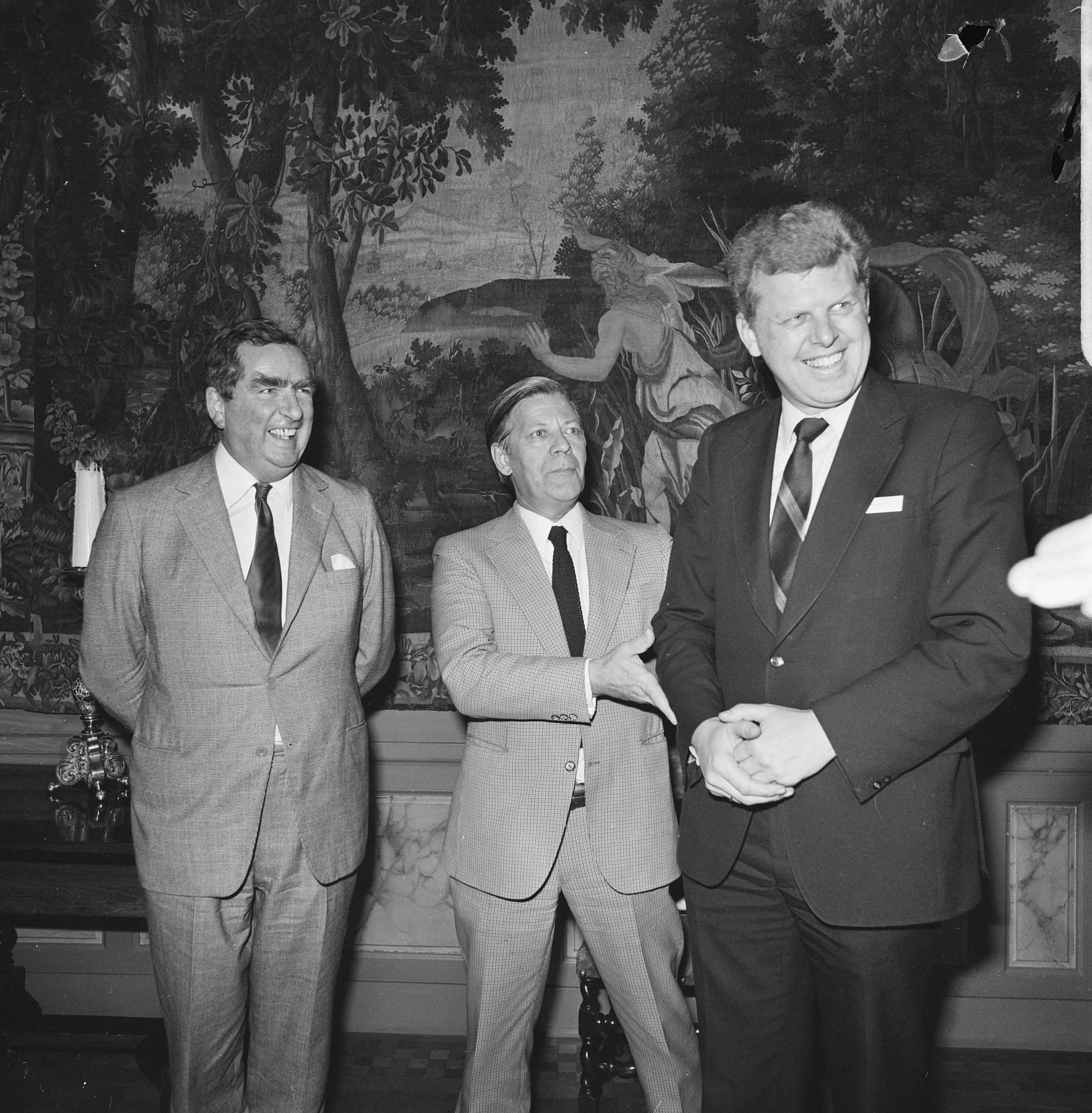 Conference on Gold by European Finance ministers, left to right Denis Healey, Helmut Schmidt and Wim Duisenberg